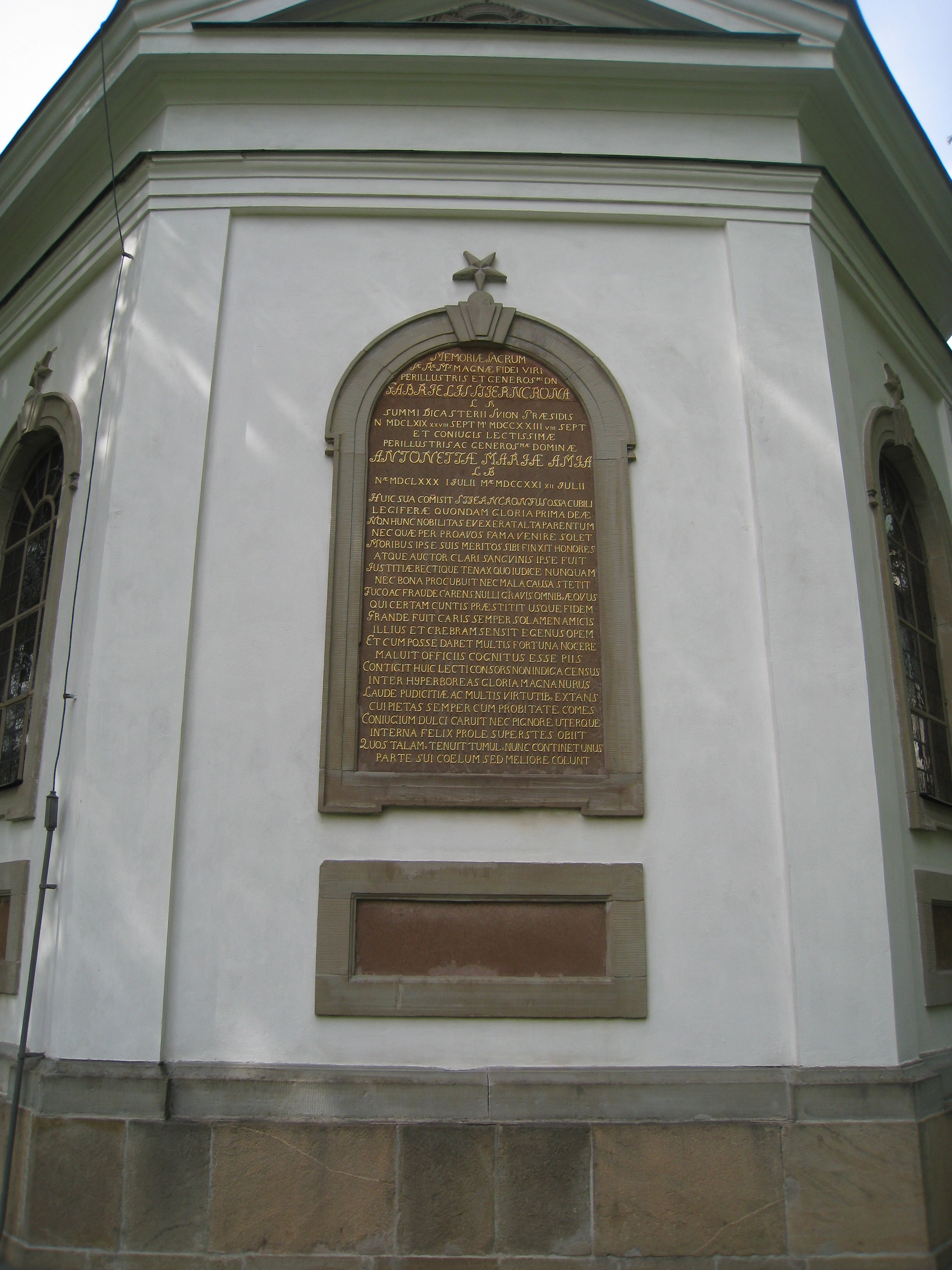 Bromma Church in Bromma Parish, Stockholm Municipality, Uppland. Picture of the burial chapel of baron Gabriel Stierncrona (1669-1723), his memoral tablet is the sancturary wall.